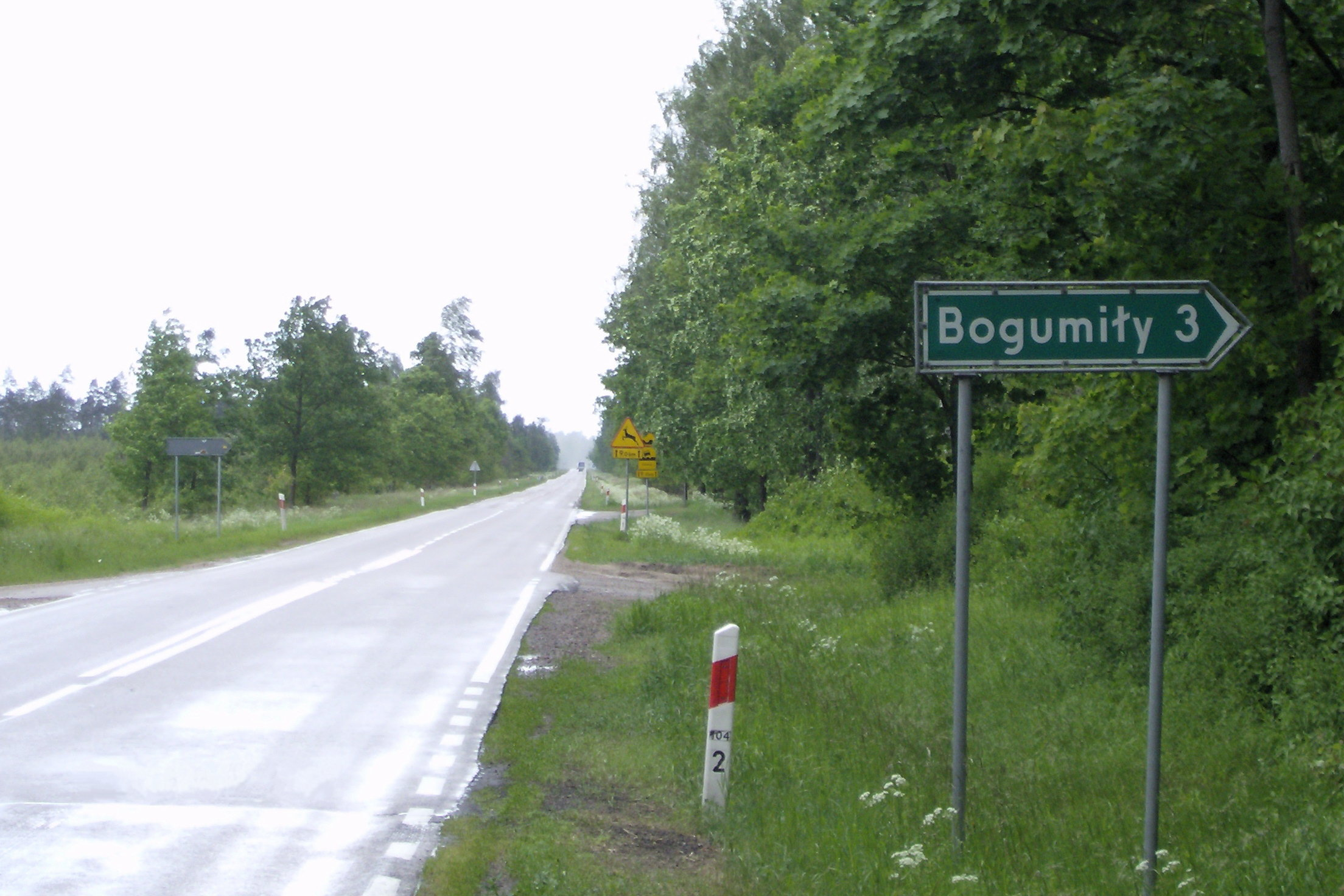 Highway 'Droga krajowa' DK 63 northbound at Dziadowo in Masuria, half way between Kolno and Pisz.